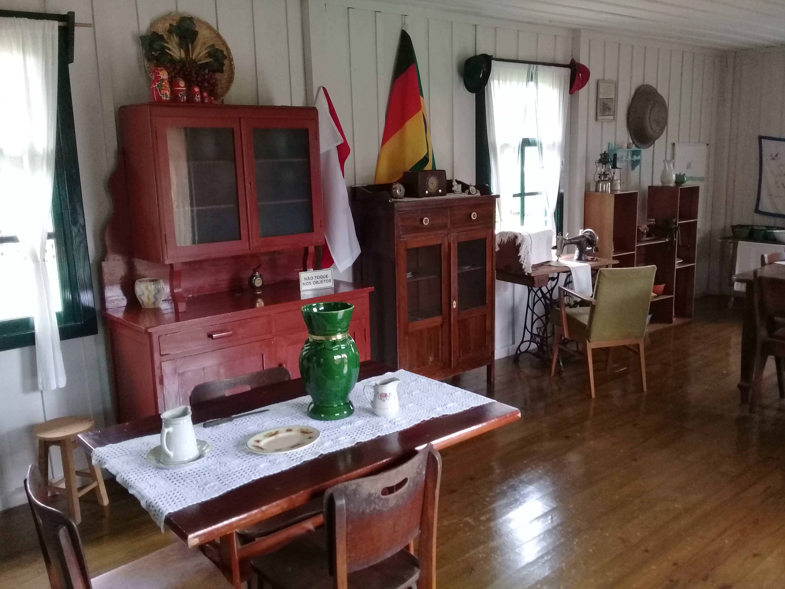 House with elements of people from different countries, including Russian and German, in Carambeí, a city of majority Dutch descent.